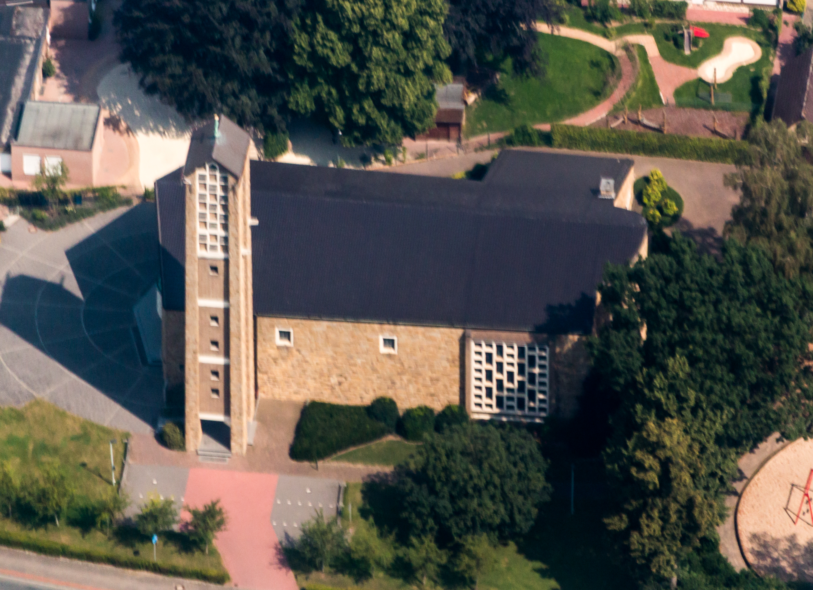 Church “Zur Heiligen Familie”, Rhede, North Rhine-Westphalia, Germany